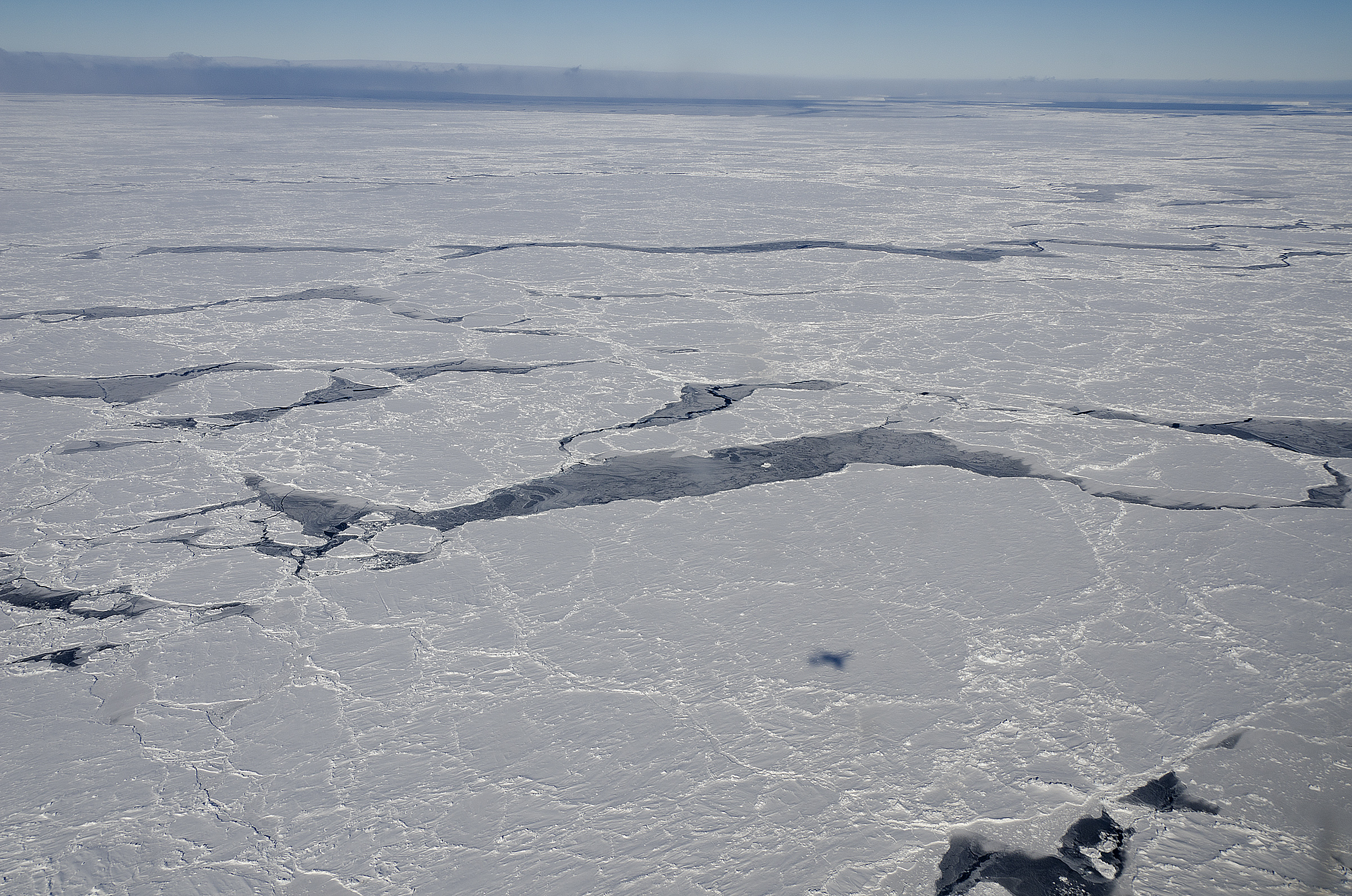 The ice covering the Bellingshausen Sea, off the coast of Antarctica, as seen from a NASA Operation IceBridge flight on Oct. 13, 2012.